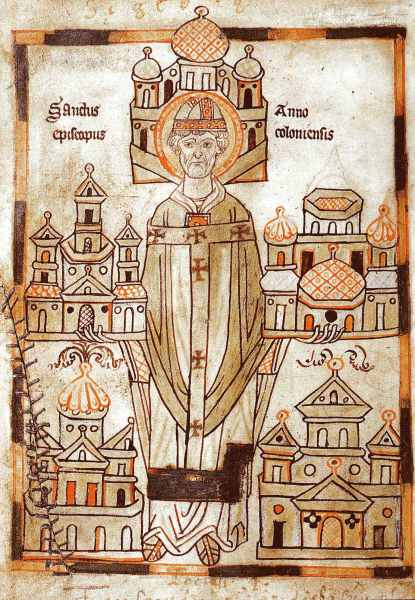 Anno II, Archbishop of Cologne showing monasteries he established